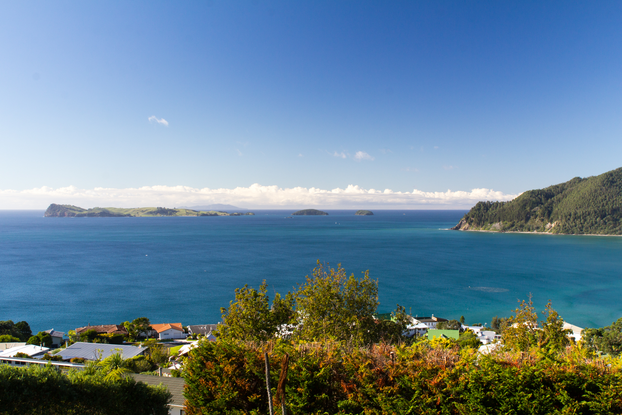 View of (from left) Slipper Island (Whakahau), Penguin and Rabbit Islands from the top of Mount Paku, Tairua, on the Coromandel Peninsula